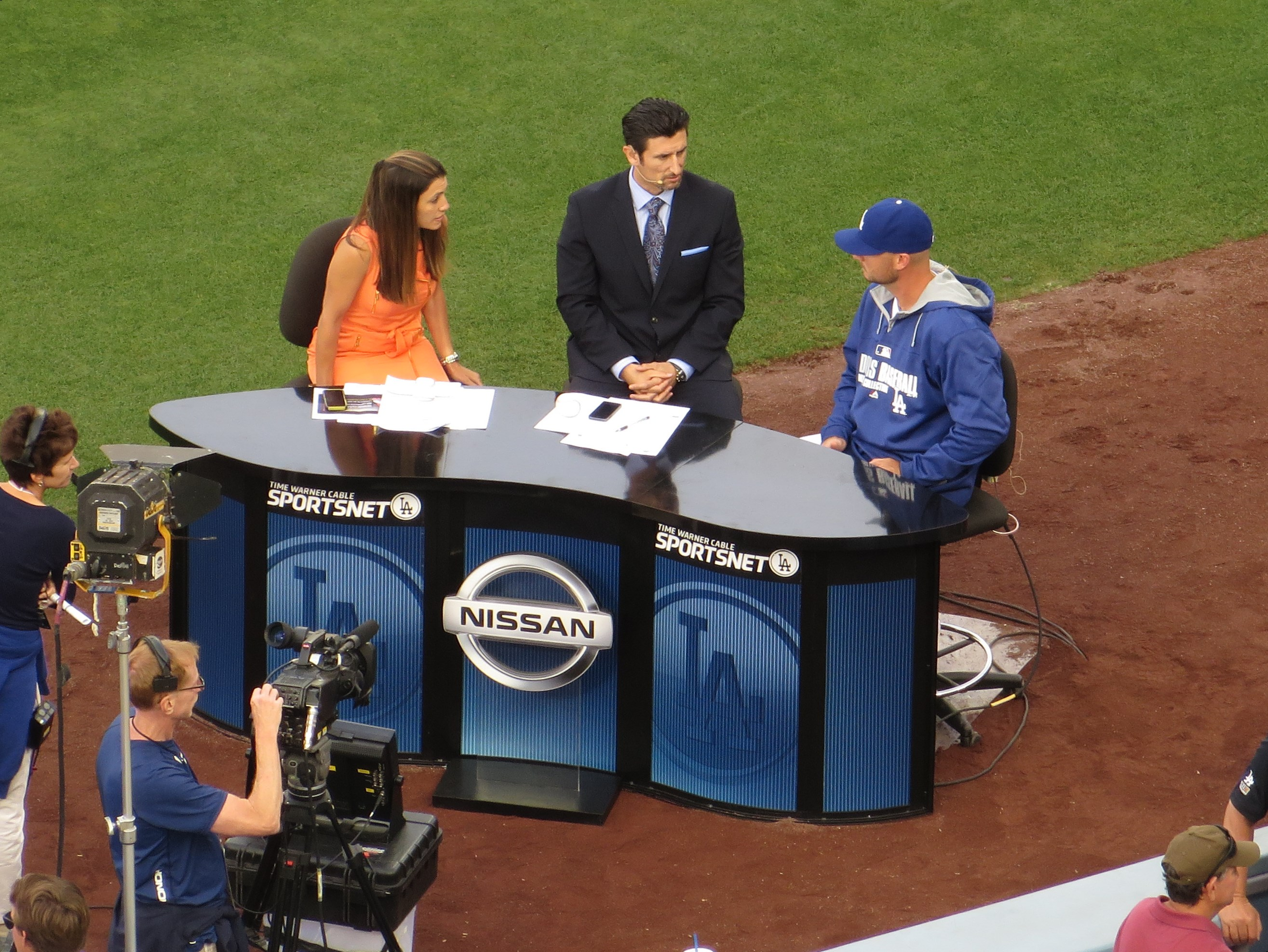 Alanna Rizzo is a sports reporter, currently with the Los Angeles Dodgers broadcast team on SportsNet LA for the 2014 season. She worked at MLB Network from early 2012 until late 2013. She reported for the shows Intentional Talk and Quick Pitch on MLB Network. Previously, she was a reporter for Root Sports Rocky Mountain, where she won three Regional Emmy awards. Anthony Nomar Garciaparra is a former American Major League Baseball player and current ESPN analyst. After playing parts of nine seasons as an All-Star shortstop for the Boston Red Sox, he played for the Oakland Athletics, Los Angeles Dodgers, and the Chicago Cubs. He is one of 13 players in Major League history to hit two grand slams during a single game, and the only player to achieve the feat at his home stadium. On December 2, 2013, the Los Angeles Dodgers announced that Garciaparra would be part of their broadcast team beginning with the 2014 season. He served as a pre-and-post game analyst for the Dodgers' telecasts on SportsNet LA, and also teamed with Rick Monday to call most of the team's road games on KLAC and the Dodgers Radio Network. However, a few months into the season he was pulled from the radio broadcasts and added to the Television crew, working with Charley Steiner and Orel Hershiser on road games. On Wednesday, February 5, 2014 it was announced that Garciaparra would be inducted into the Boston Red Sox Hall of Fame, along with former pitchers Pedro Martinez and Roger Clemens and longtime radio announcer Joe Castiglione.